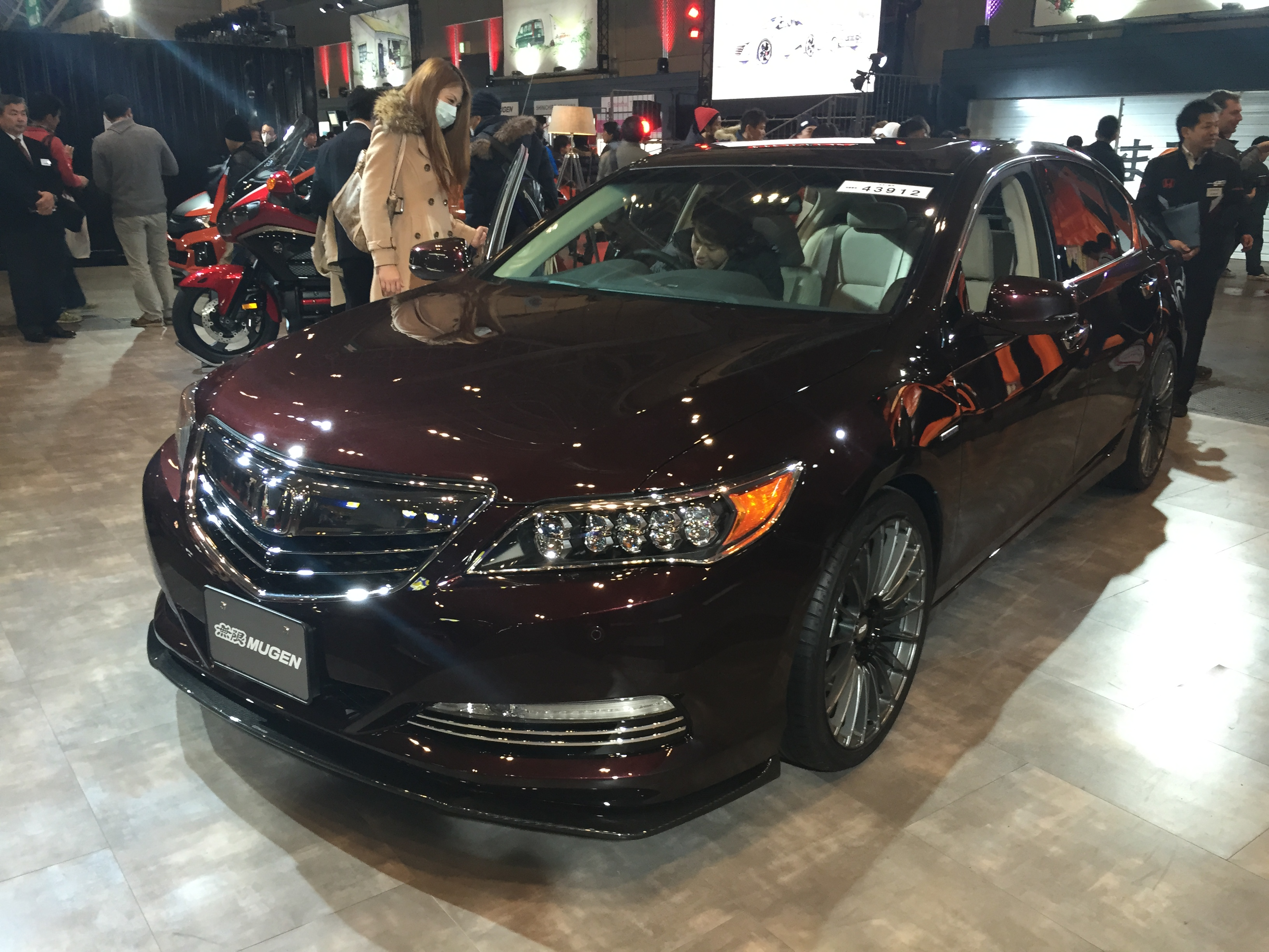 Mugen Legend photographed at the Tokyo Auto Salon 2015.